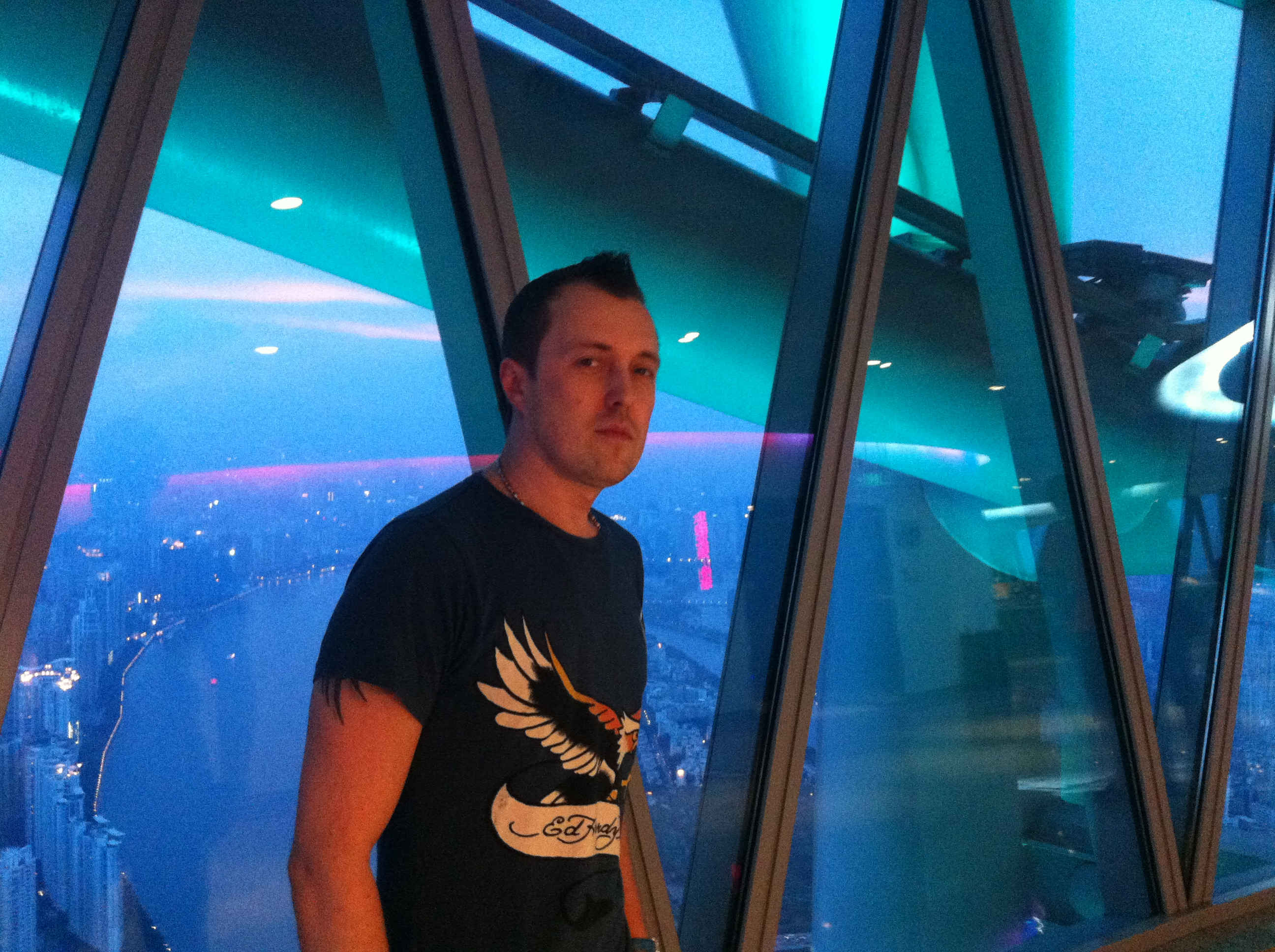 Dennis Ivanoff, AKA DJ Amadeus.